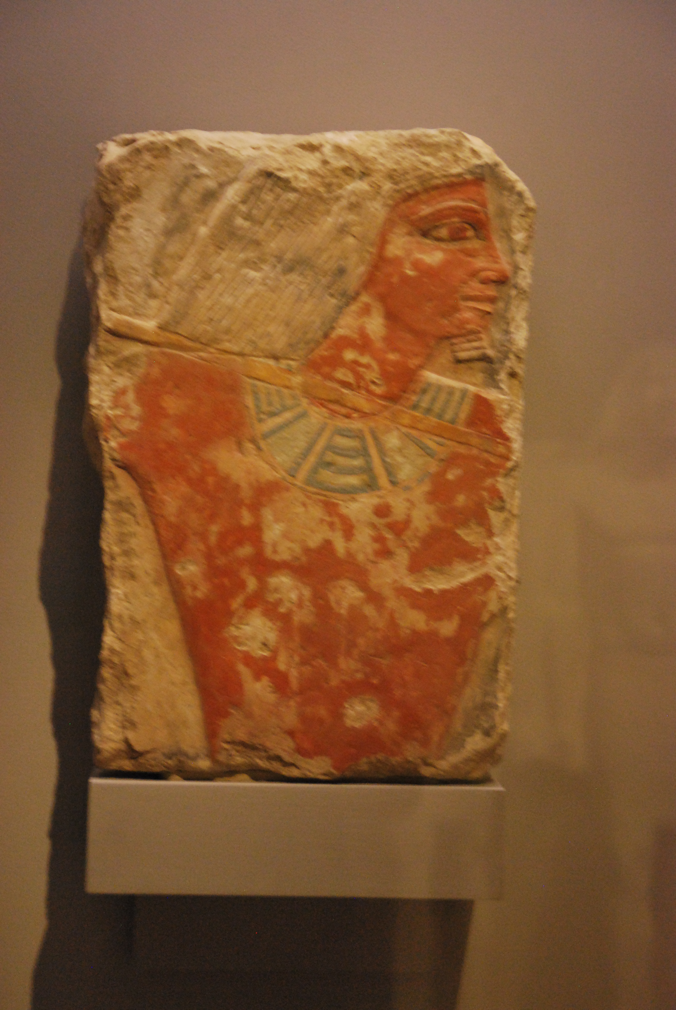 Painted limestone relief from a scene of Mehu fishing from Giza, Egypt; Egyptian, Old Kingdom, late Dynasty 5, 2431–2323 B.C.; Overall: 38 x 25 x 8.5 cm, 21.32 kg (14 15/16 x 9 13/16 x 3 3/8 in., 47 lb.); Acc. 39.833.1; Details.